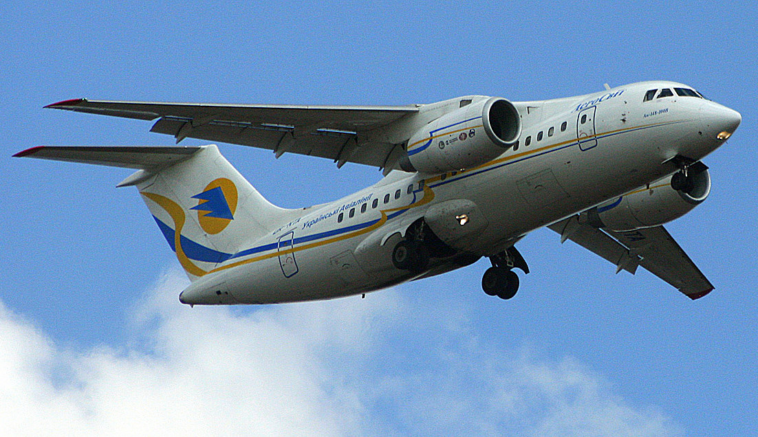 AeroSvit Ukrainian Airlines Antonov An-148-100B landing at Vilnius International Airport VNO (Lithuania) ModeS: 5080EB Reg: UR-NTA Typecode: A148 Type: Antonov An-148-100 Serial number: 0101